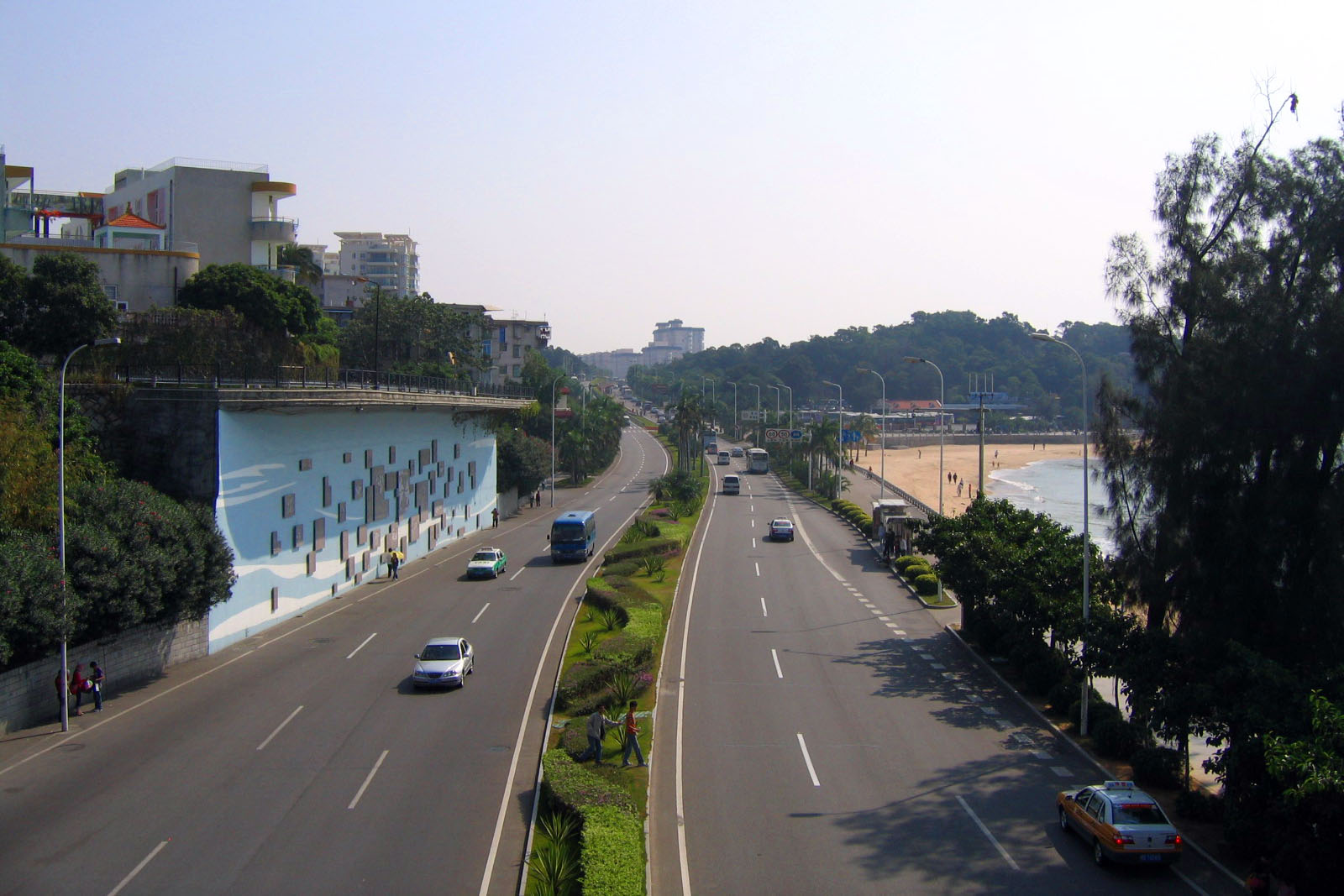 Xiamen Island Circular Road (Huandao Road)